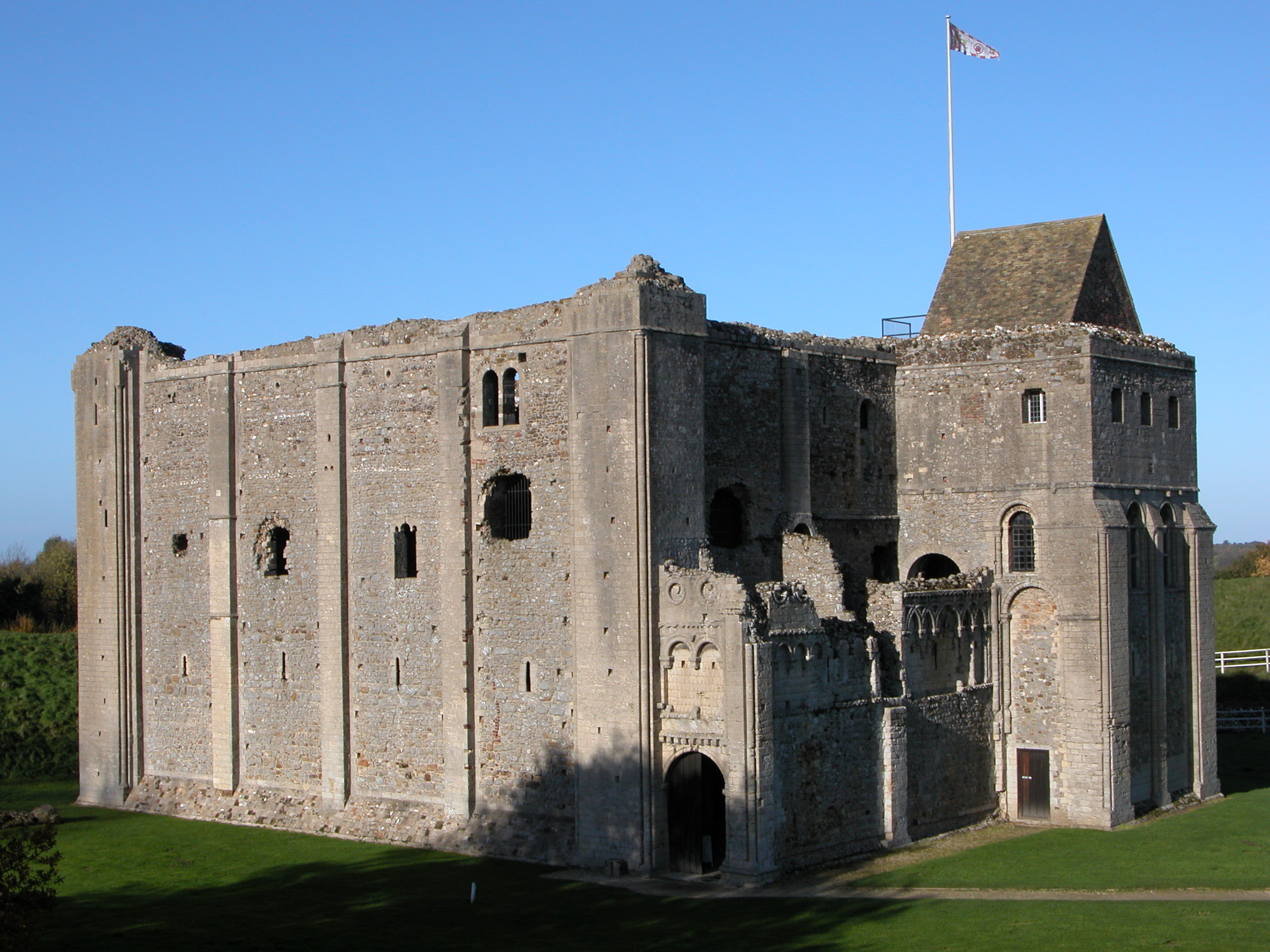 Castle Rising Castle. By William M. Connolley; 2006/11.